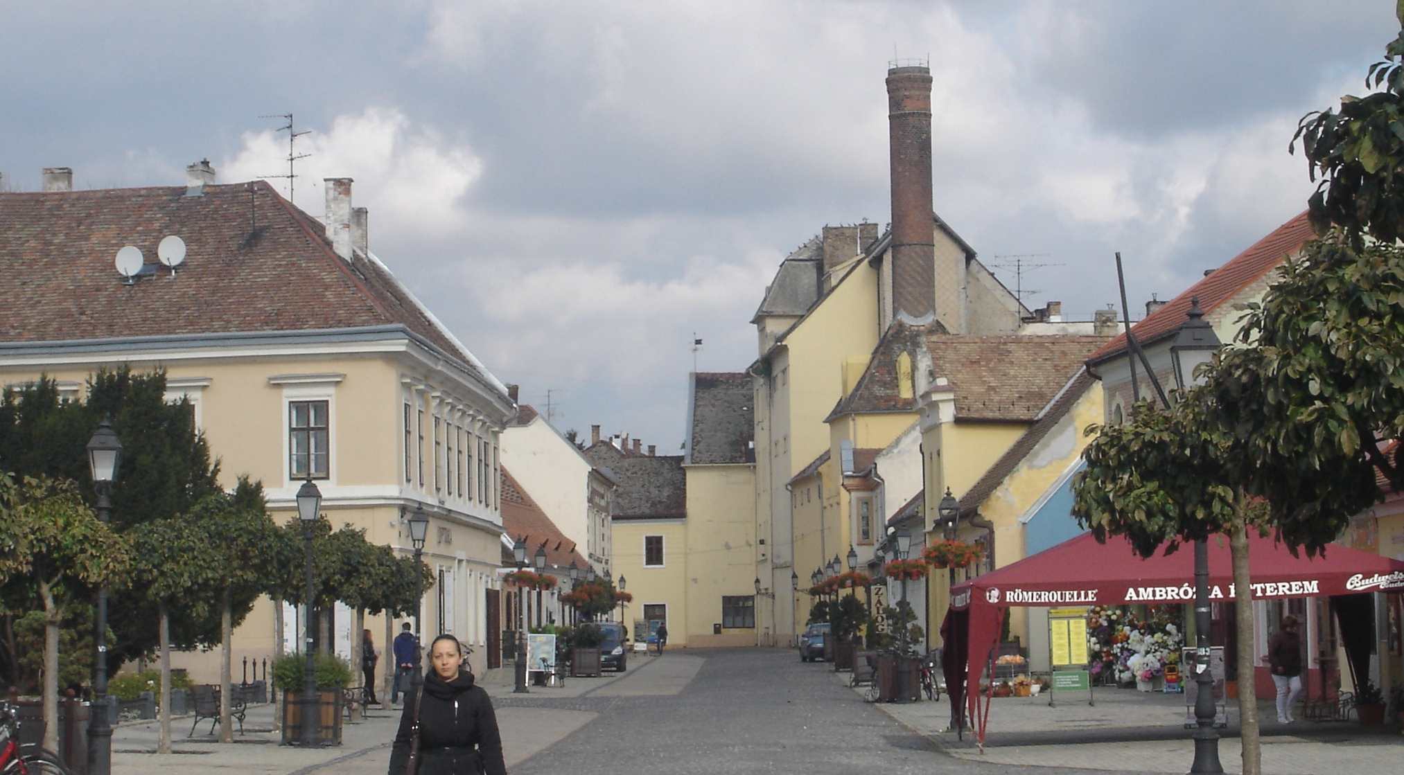 Mosonmagyróvár:Pedestrian area; perspective towards old breweryAmbrózia Étterem. - Mosonmagyaróvár, Magyar u. 16